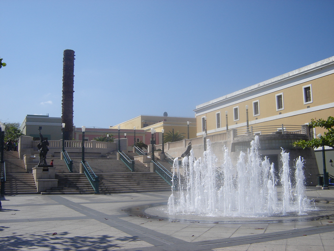 Plaza Quinto Centenario in Old San Juan, Puerto Rico